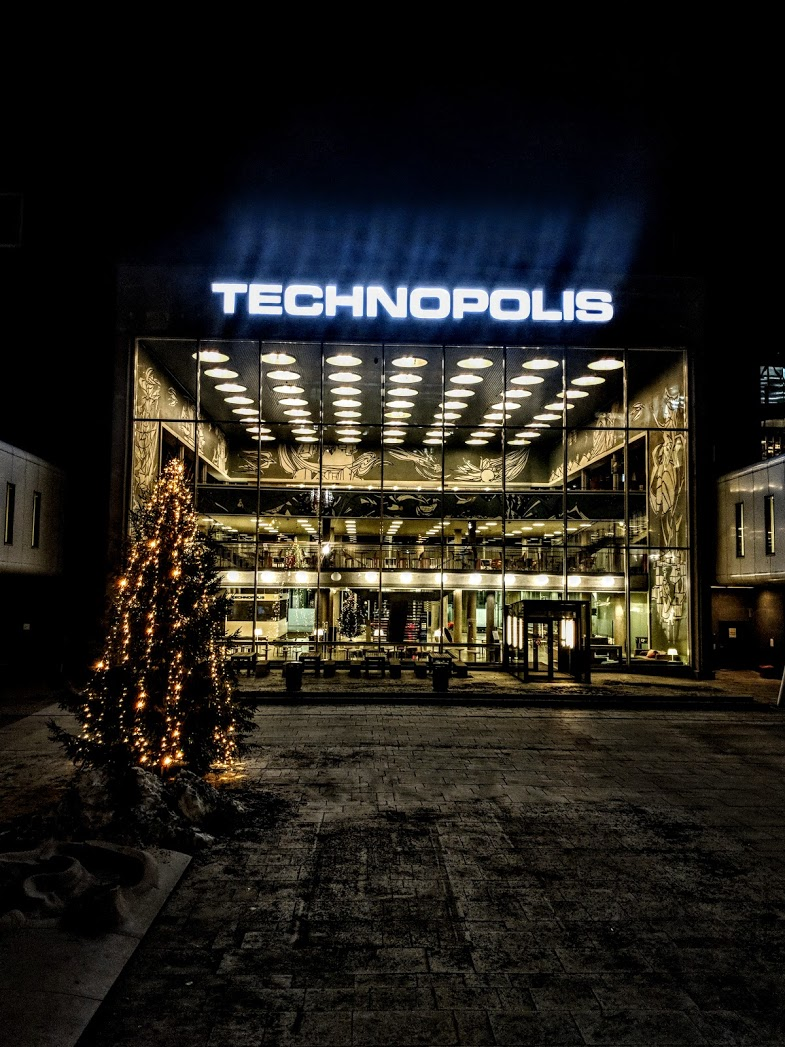 Entrance to Technopolis, Fornebu; early December morning